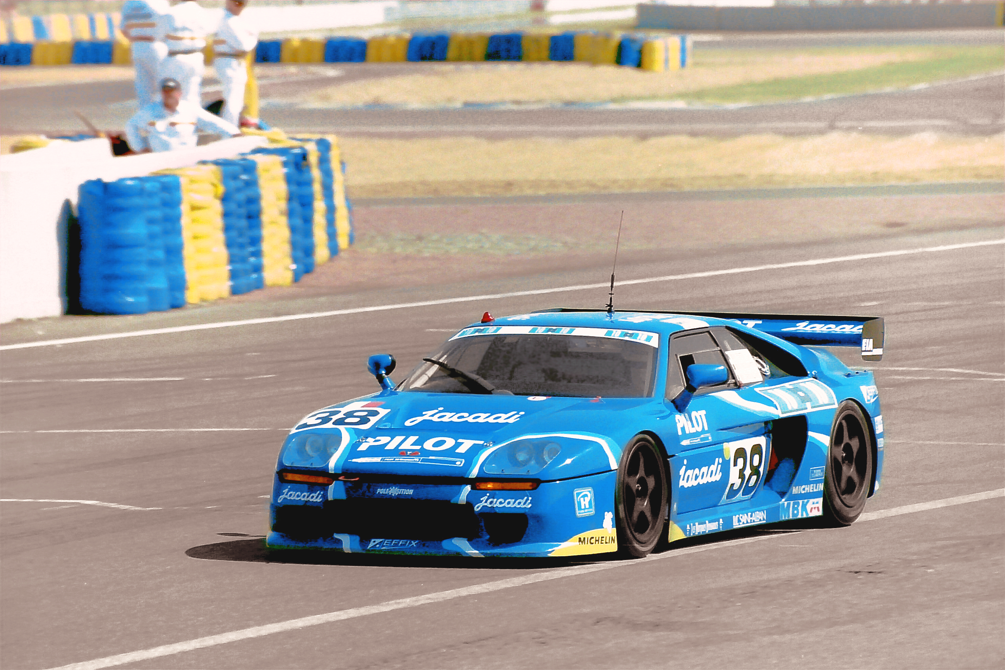 Venturi 600 LM - Michel Ferte, Olivier Grouillard & Michel Neugarten heads onto the pit straight at the 1994 Le